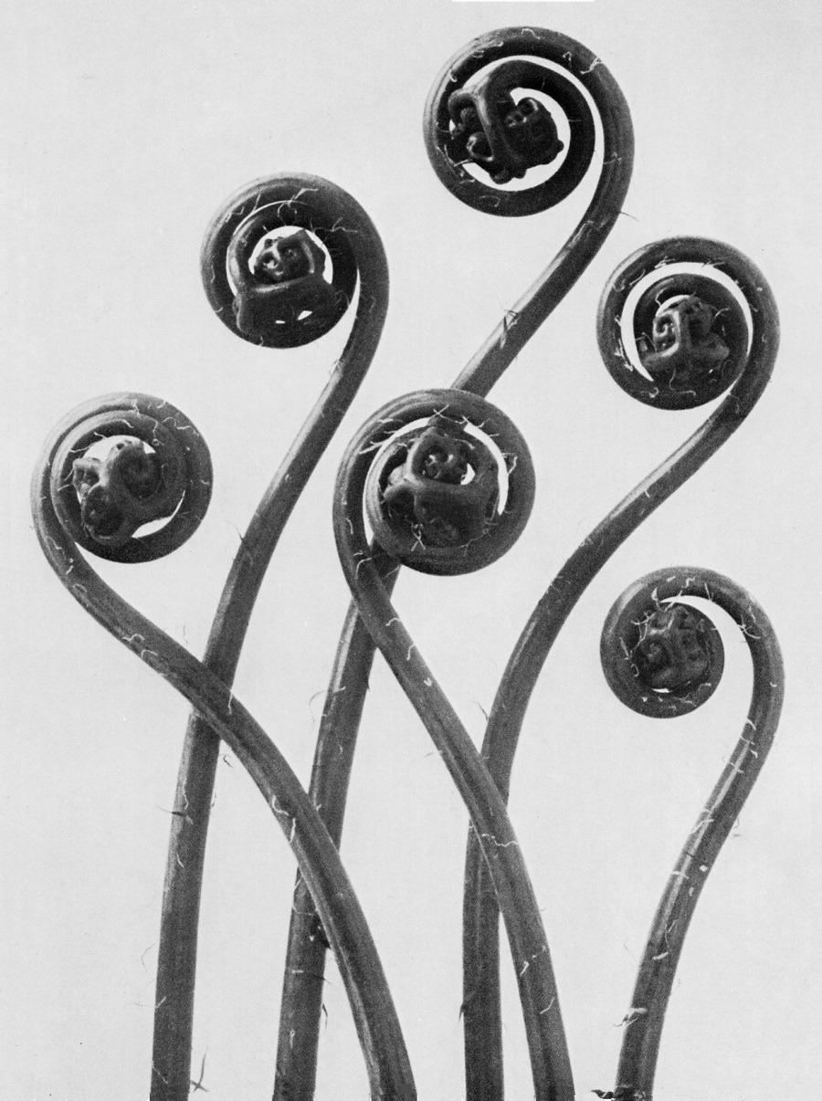 Karl Blossfeldt: Adiantum pedatum (1928)